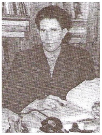 Azerbaijan's prominent scientist-economist, geographer.